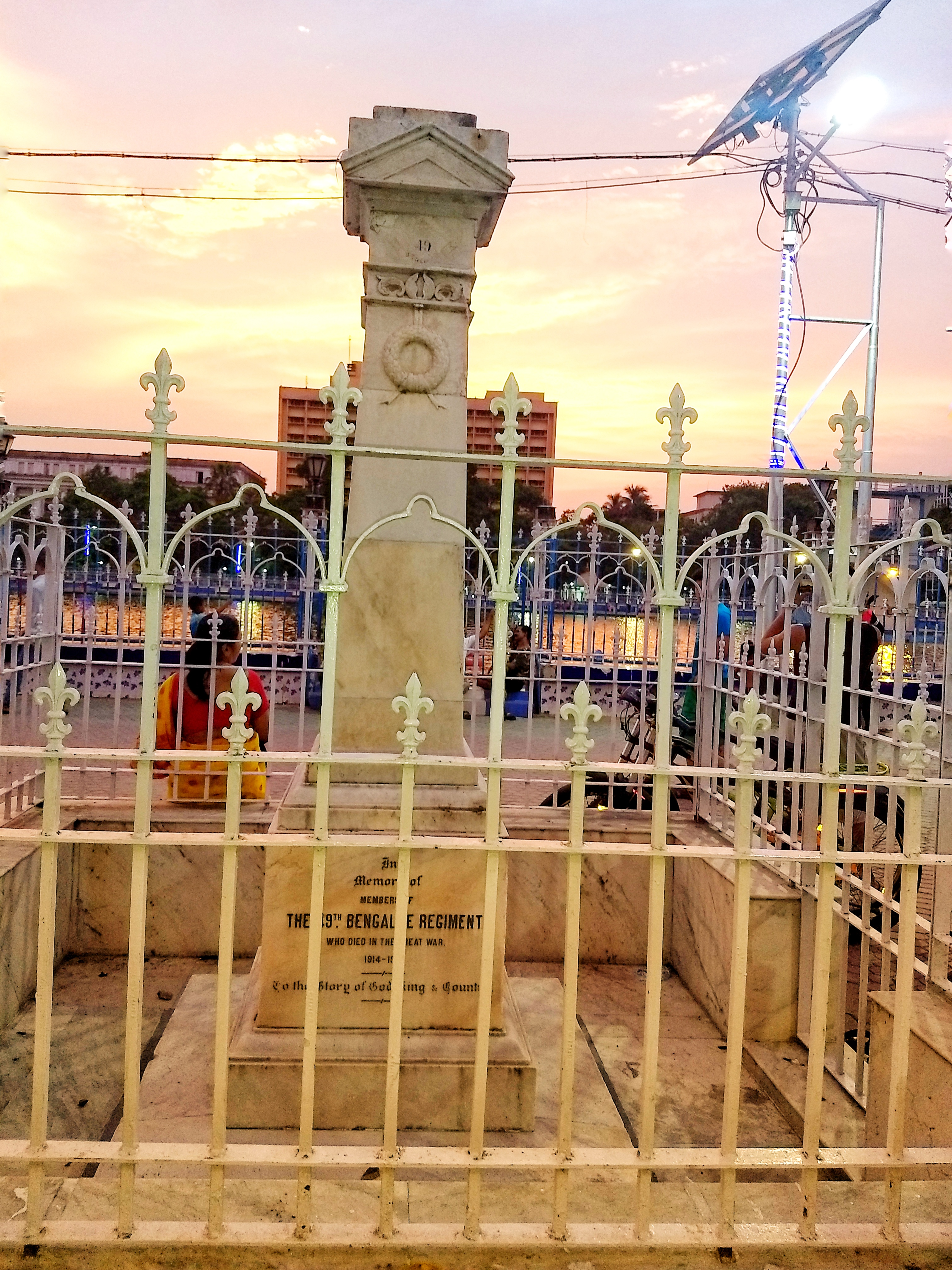 Monument of Bengali Regiment at College Square in Kolkata